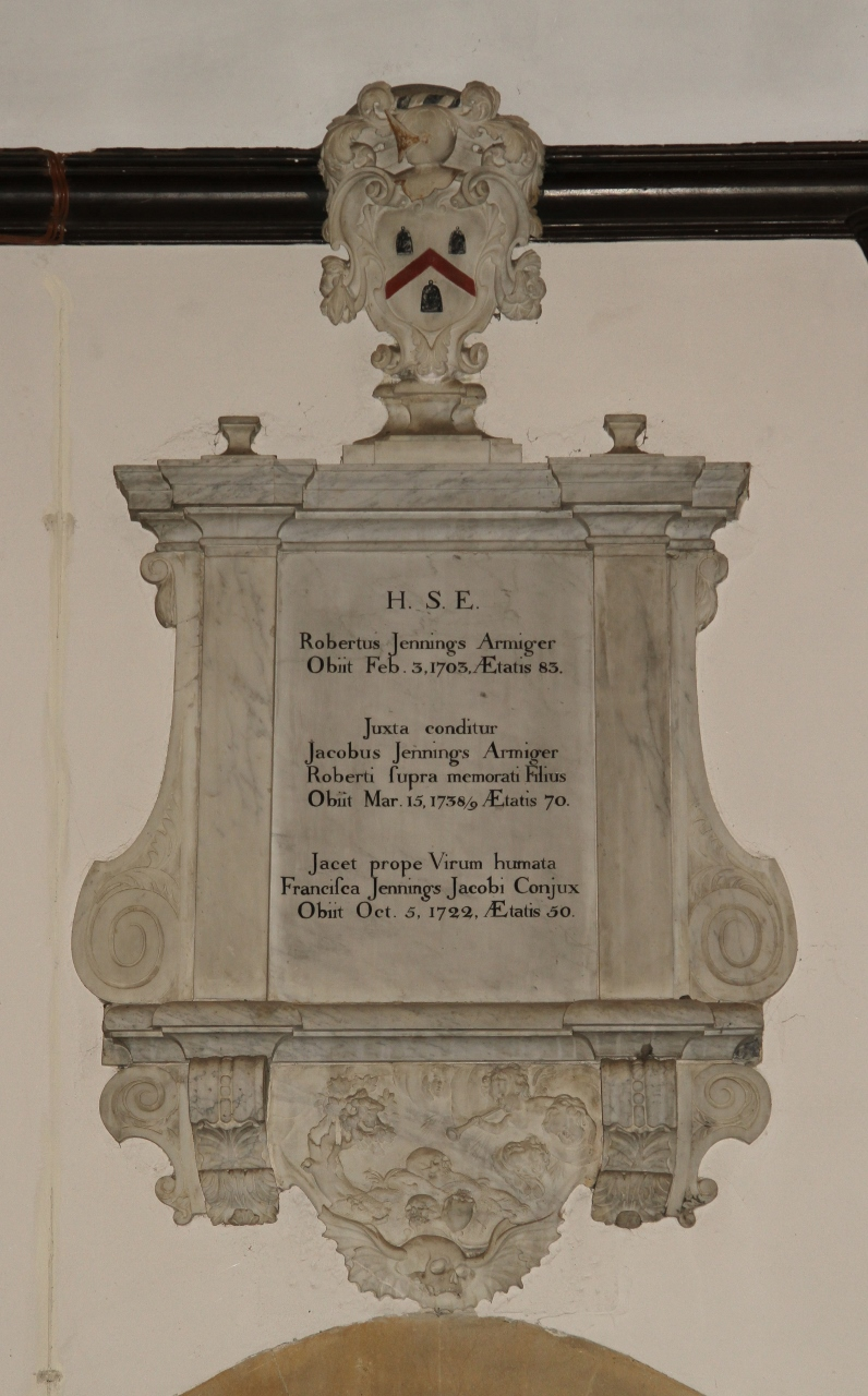 Monument over the south door in the south aisle of the parish church of SS Peter and Paul, Shiplake, Oxfordshire. The inscription commemorates Sir Robert Jennings who died in 1703, Sir Jacob Jennings who dies in 1739 and Francisca Jennings who died in 1722.